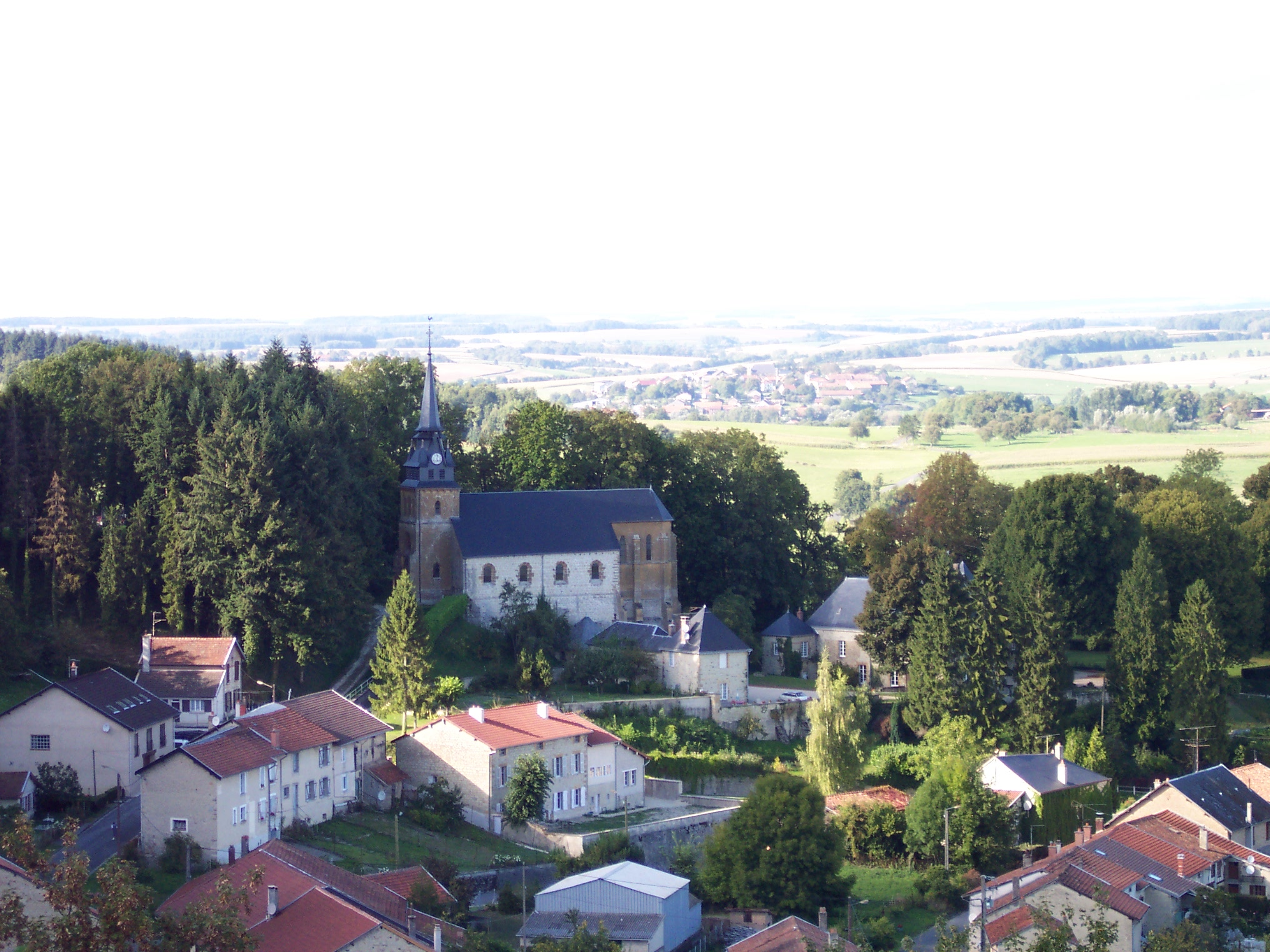 Village of Cornay (church and castle) in Argonne; in background, in Aire valley : Saint Juvin, Ardennes, Champagne-Ardenne, France.